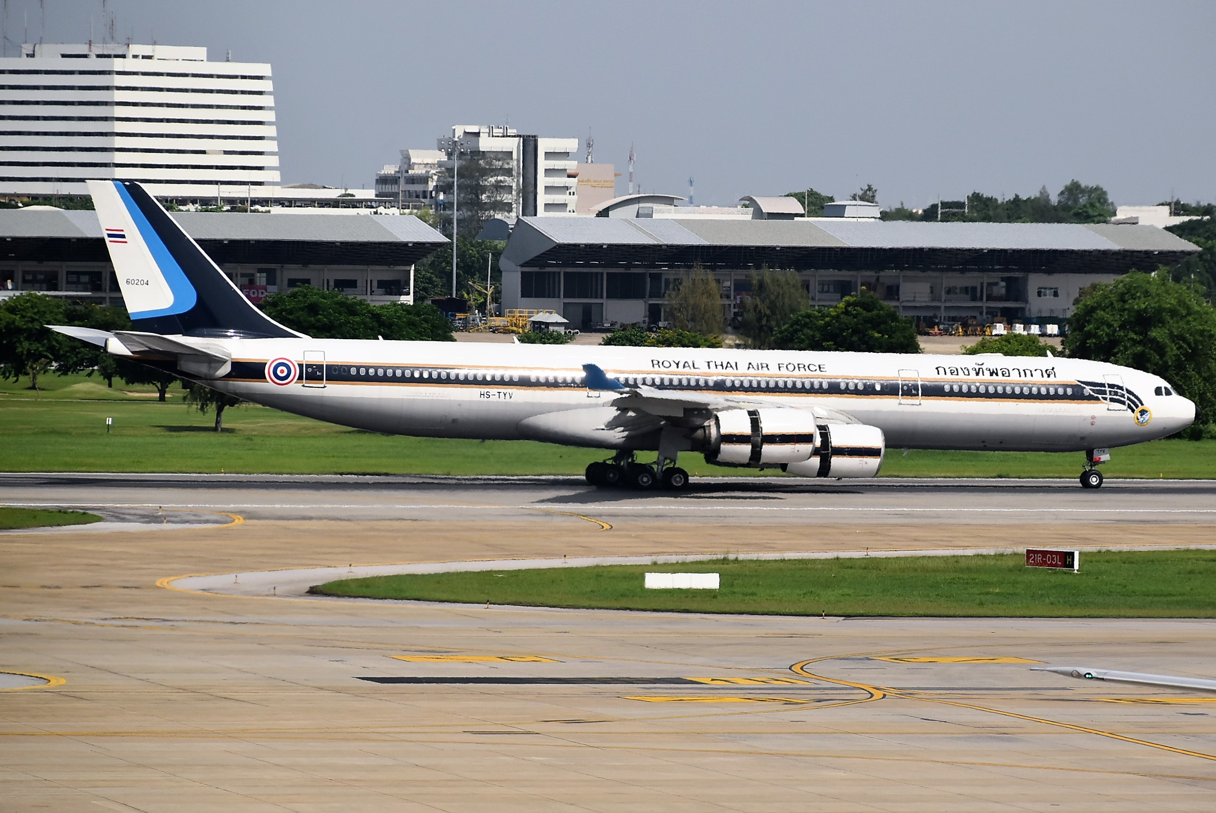 Airbus A340/5 of the Royal Thai Air Force arriving rwy.21R at Bangkok-DMK,Thailand,05/05/17.